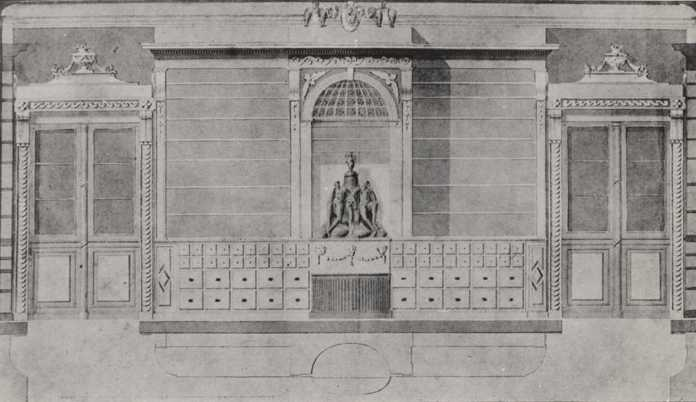 Elevation of a wall in the Royal Pharmacy, 1791 by Andreas Kirkerup